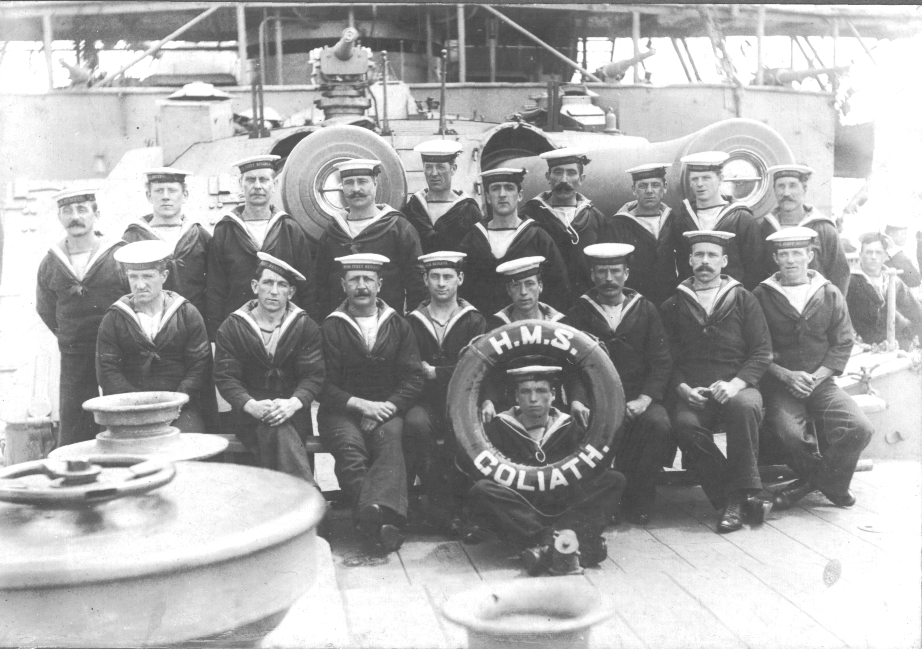 Crew of HMS Goliath including Ernest Alfred Morris, back row second from left. Behind the men are the ship's 12 inch guns.